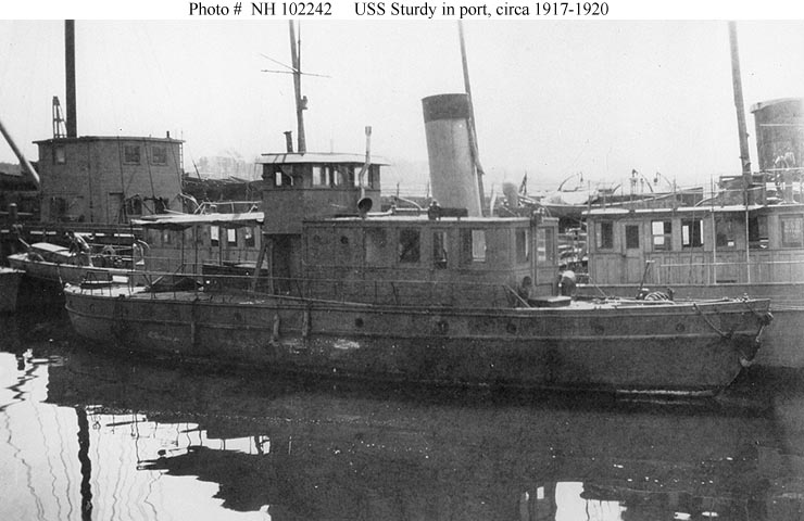 United States Navy patrol boat USS Sturdy (SP-82), possibly while awaiting disposal